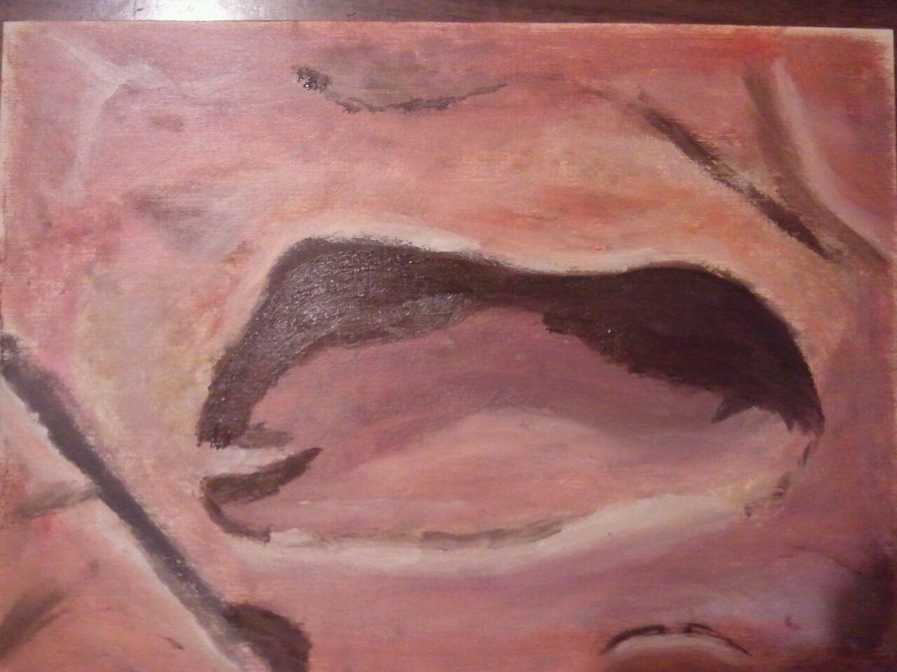 Artist's recreation of photograph of a hominid footprint from Laetoli.